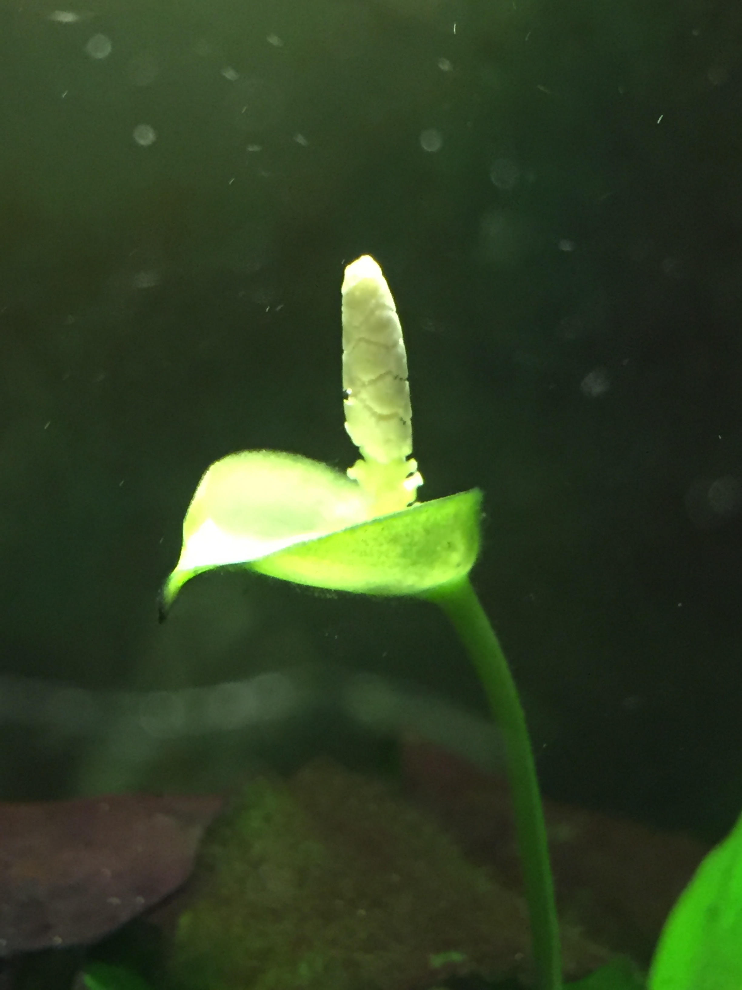 Flower of Anubias barteri in an aquarium